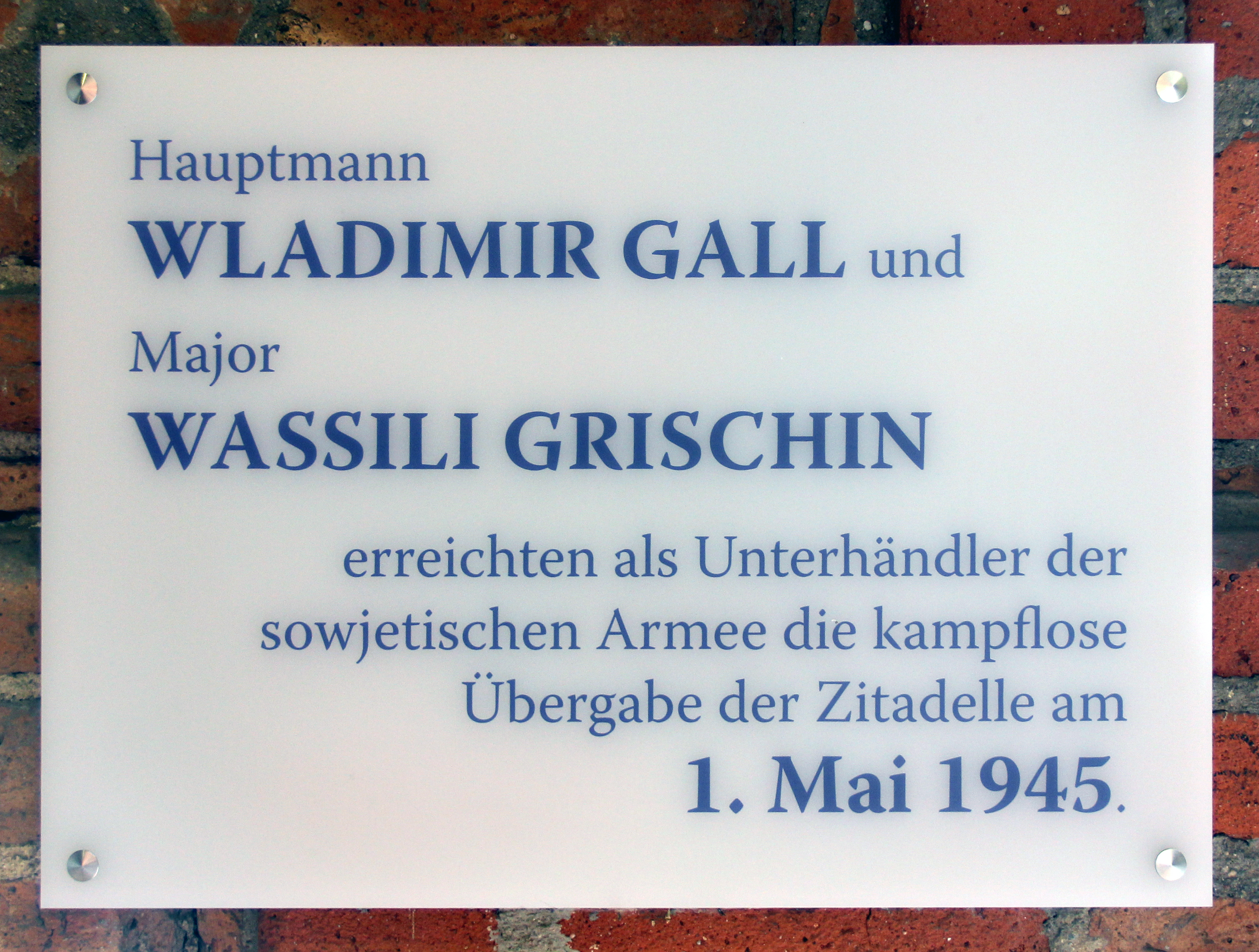 Memorial plaque, Wladimir Samoilowitsch Gall and Wassili Grischin, Am Juliusturm 64, Berlin-Haselhorst, Germany